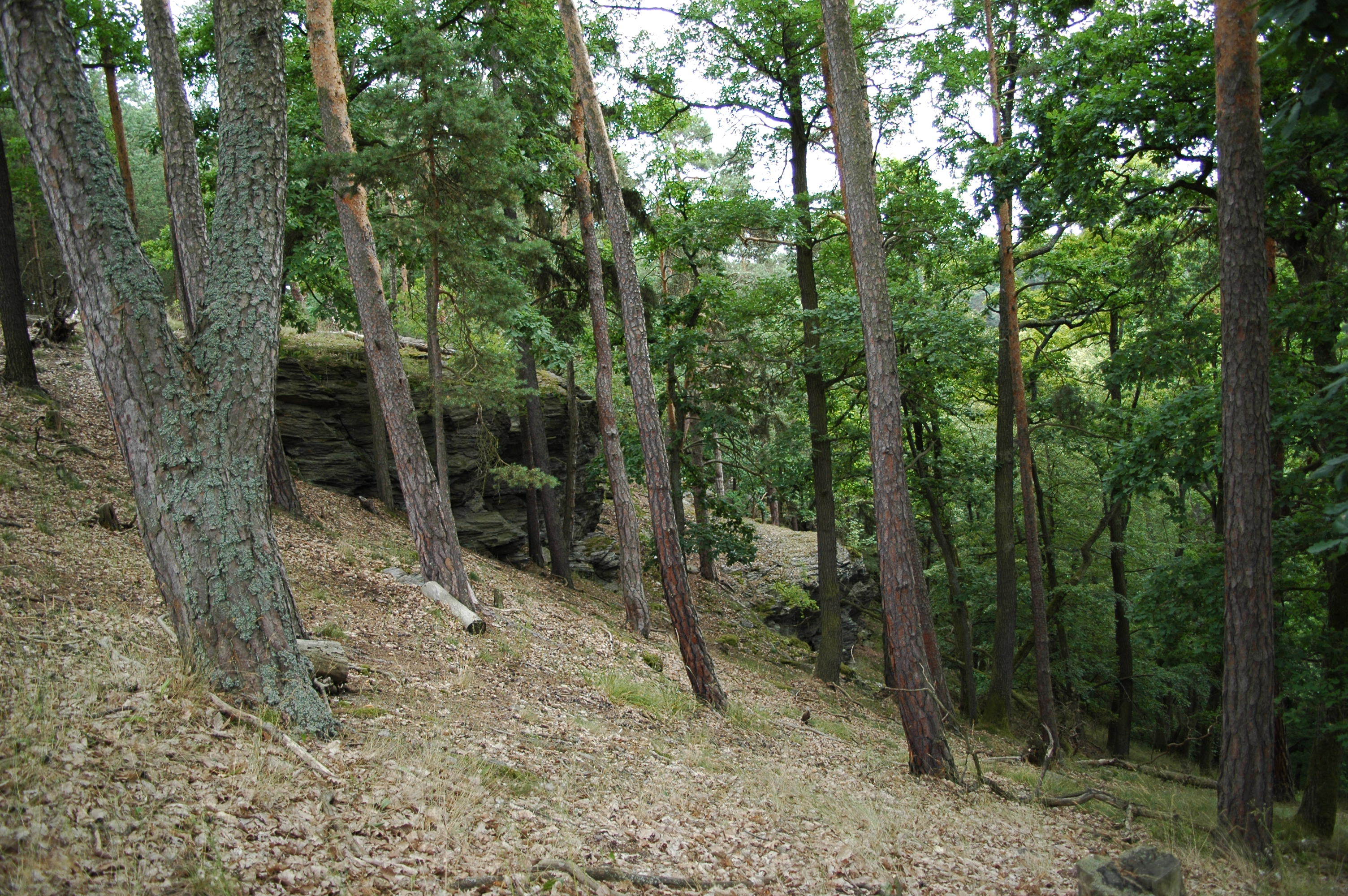 Boreo-continental pine forests Localization: Czech Republic, Stříbro, Nature reserve Petrské údolí 49°46'27.23"N,13°0'58.88"E [2]